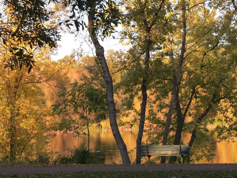 Beautiful fall day along the Mississippi River at Ellison Park, Monticello, MN